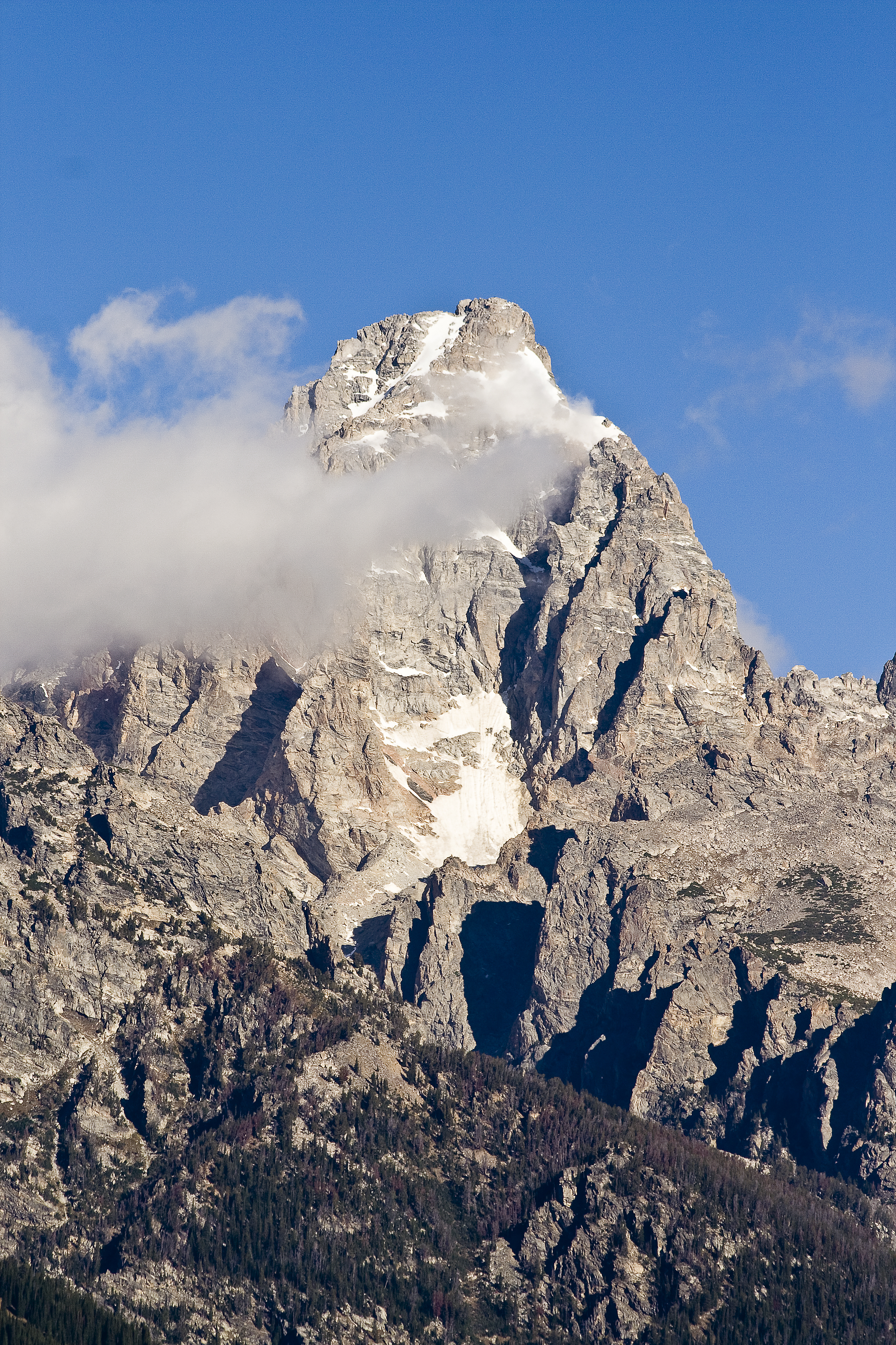 Grand Teton from the southeast, Grand Teton National Park, Wyoming, USA